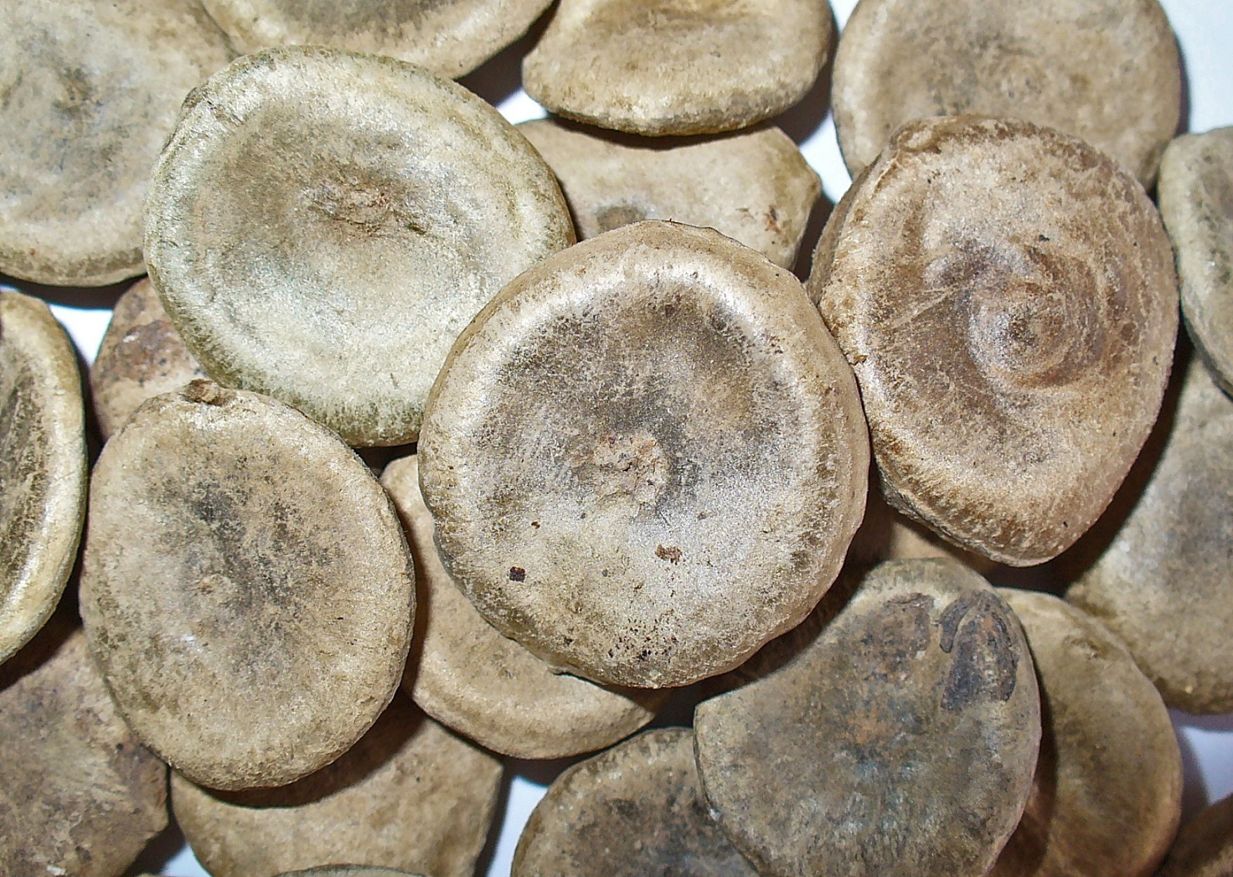 Strychnos nux-vomica, Strychnine tree, seeds. Private collection, therefore not geocoded.